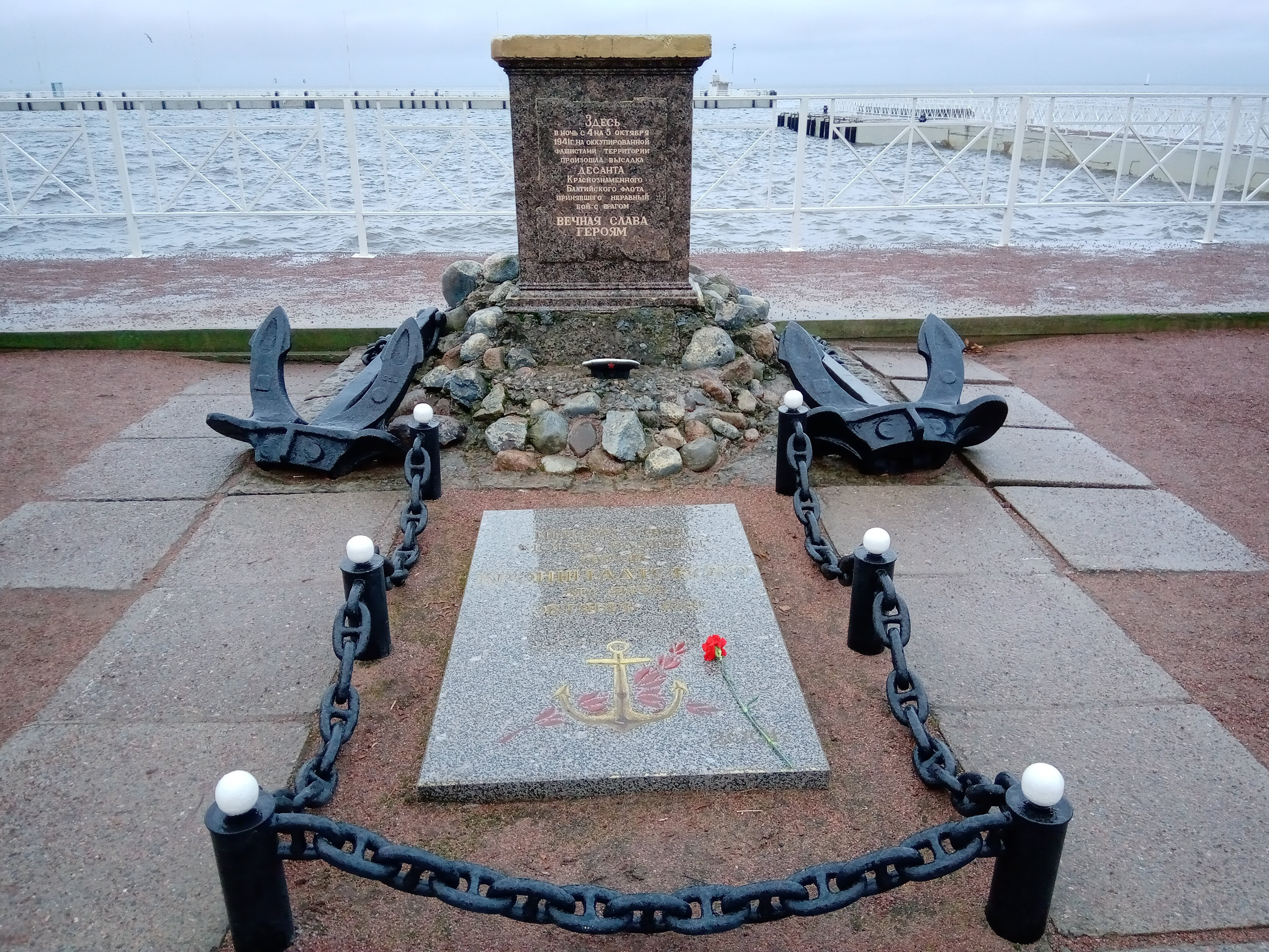 The monument of Peterhof naval landing